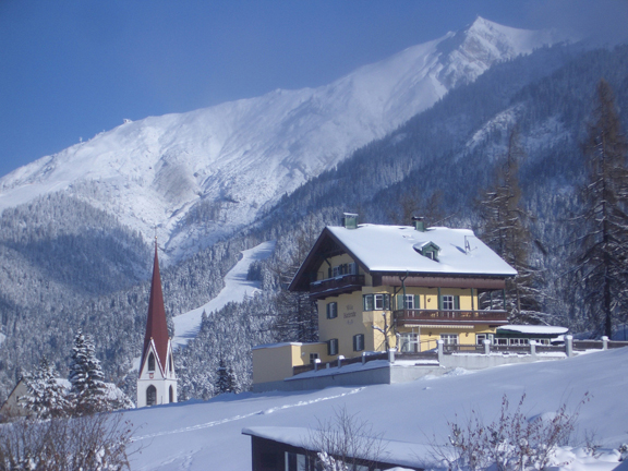 Tom McCall Seefeld Tirol Austria